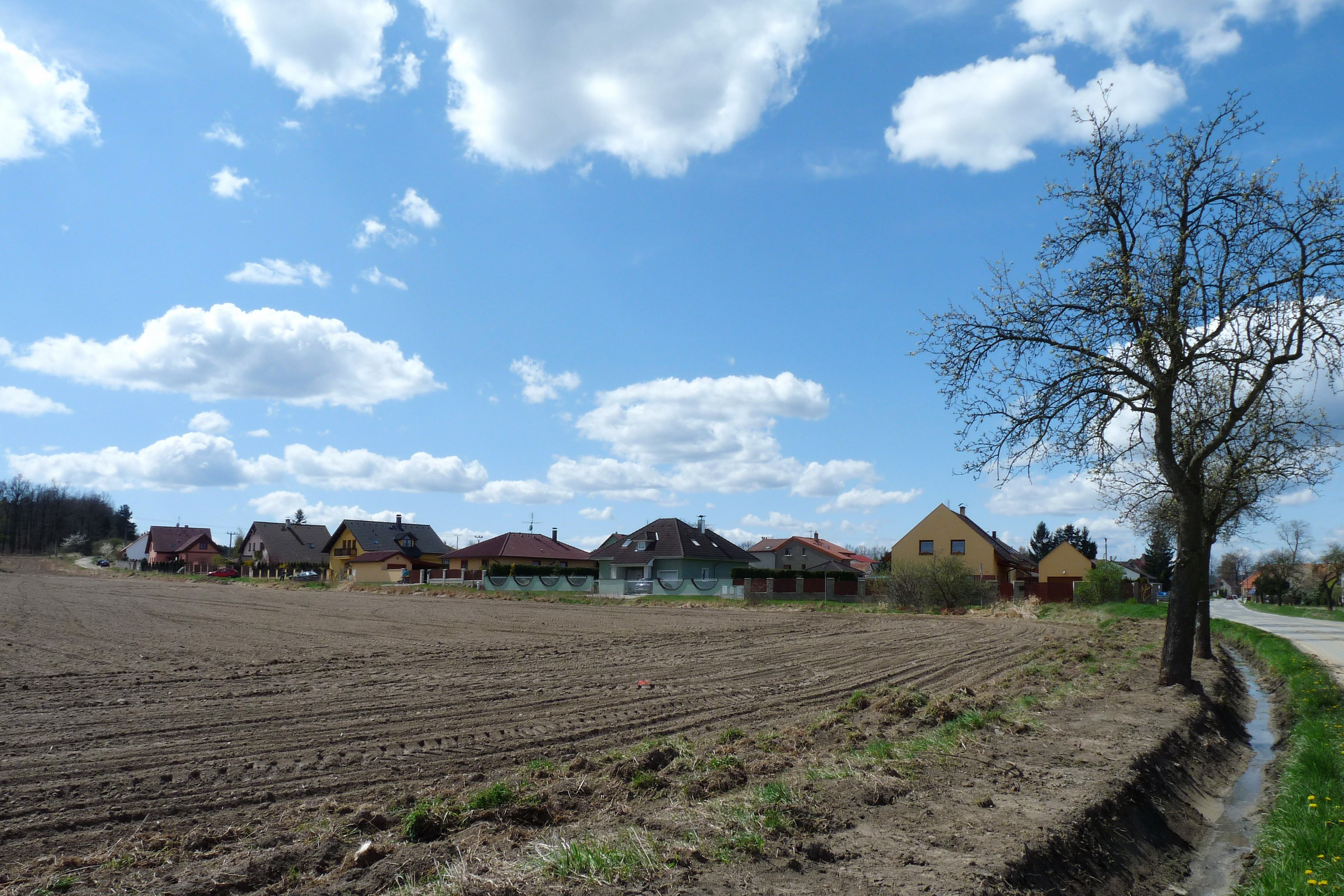 Branišov, České Budějovice, Czech Republic as seen from the east.